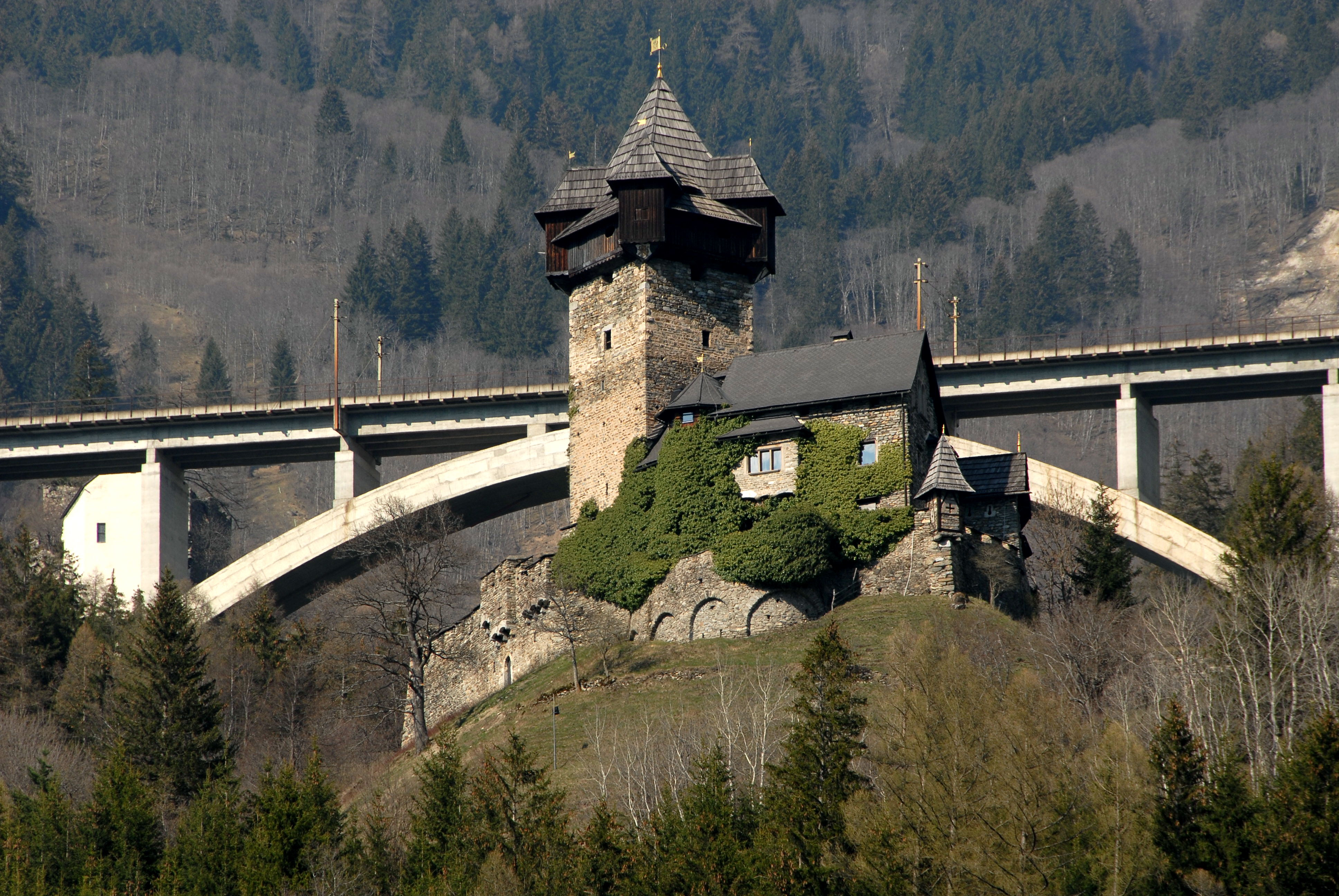 Castle Niederfalkenstein, municipality Obervellach, district Spittal an der Drau, Carinthia, Austria